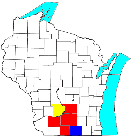 Map of Madison-Janesville-Beloit, WI Combined Statistical Area (CSA): Red: Madison, WI MSA Blue: Janesville-Beloit, WI MSA Yellow: Baraboo, WI μSA